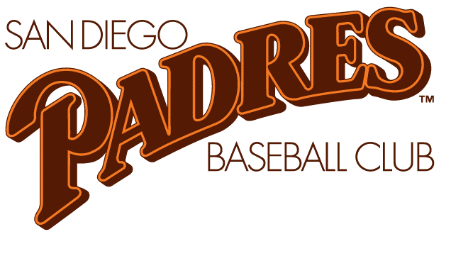 The logo for the San Diego Padres baseball team in 1985